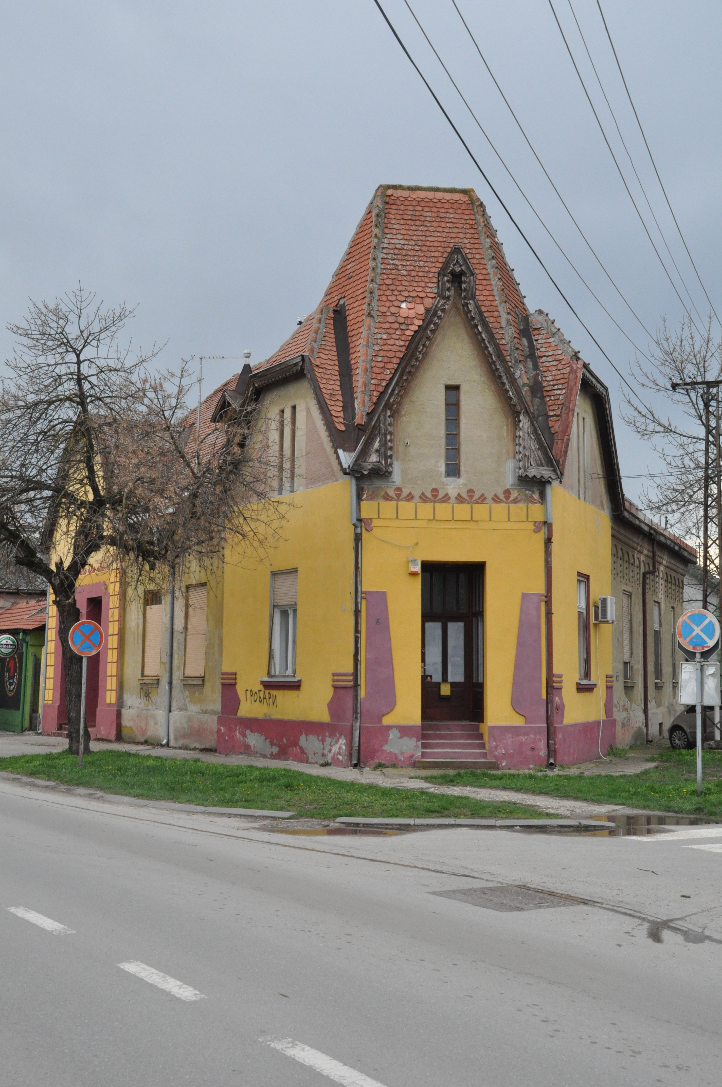 Professor Borjanović house